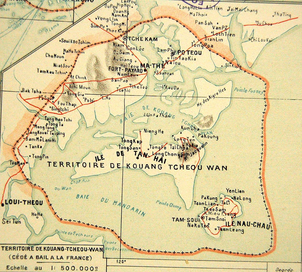 A 1909 map of Kwang-Chou-Wan, a French colony in southern China.